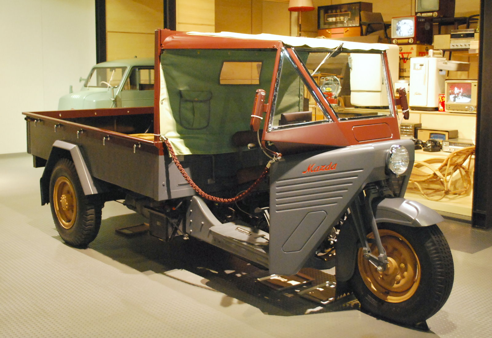 Mazda_CT (2t)